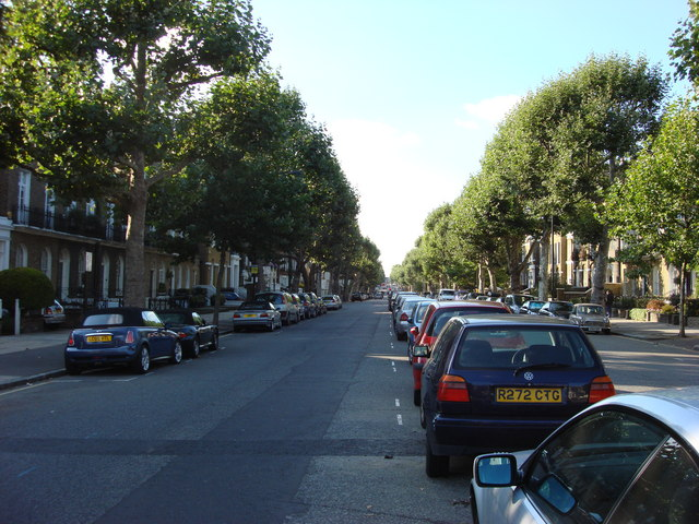 Southern end of Hamilton Terrace